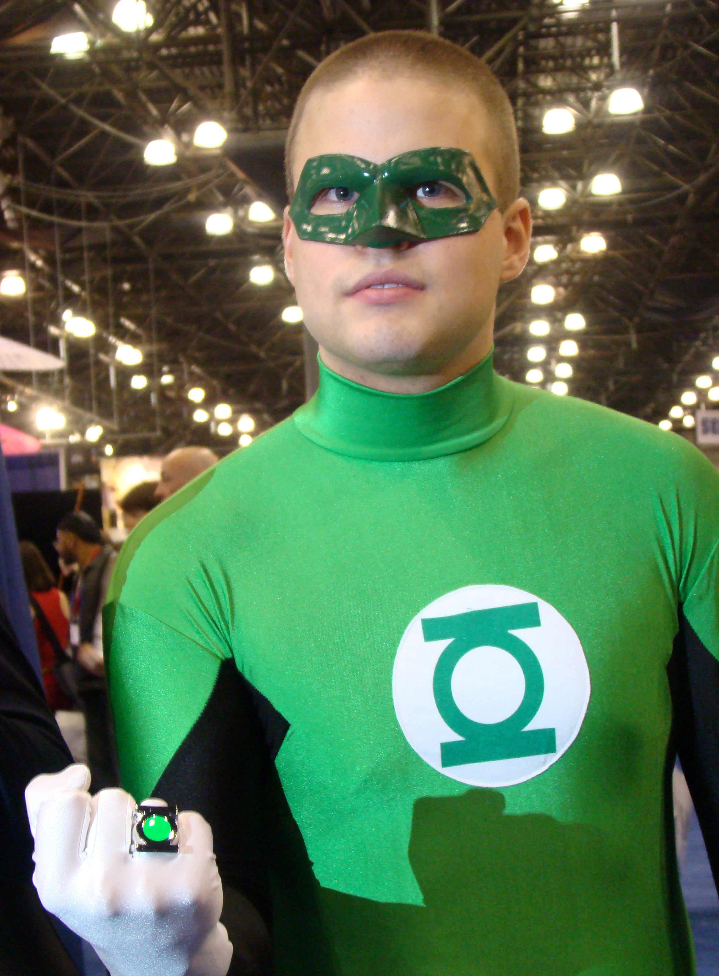 green lantern New York Comic-Con, Saturday, February7th, 2009. If you see yourself in this or any of my other pictures, let me know in the comments, or by emailing me at loser: [at] istolethe [dot] tv. As seen on io9! Thanks for the link, Charlie!